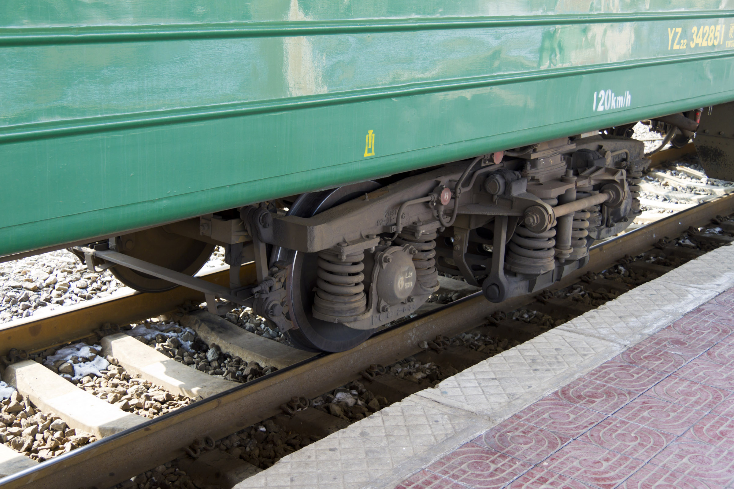 China Railway 22 Passenger Coach Bogie